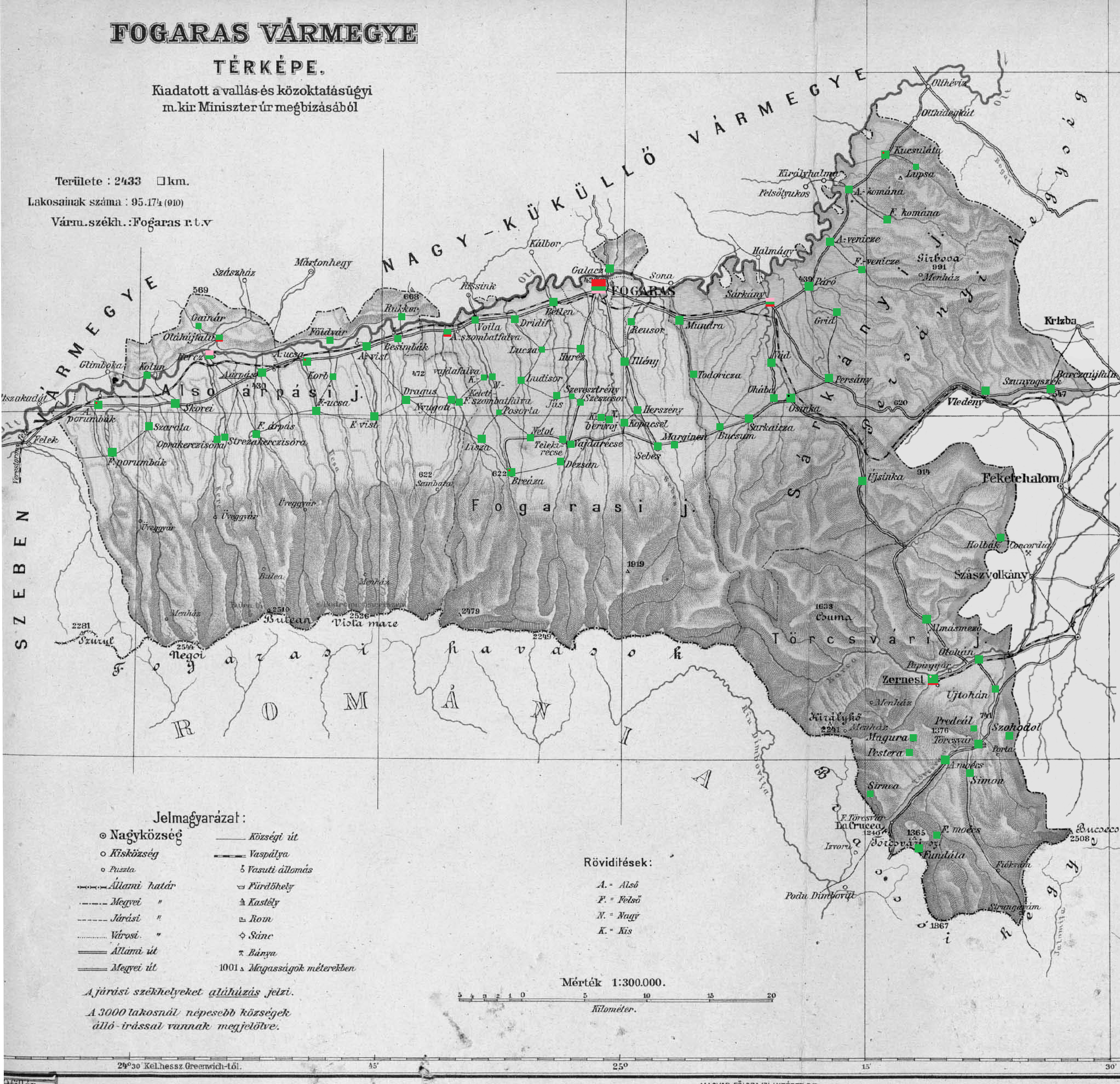 Ethnic map of the county (with data of the 1910 census). Key: dark green - Romanians; red - Hungarians; pink - Germans; black - Roma. Coloured dots in plain rectangles imply the presence of smaller minority populations (generally more than 100 people or 10%). Multicoloured rectangles imply cities and villages with multi-ethnic populations with the order of the stripes following the ethnic composition of the settlement.